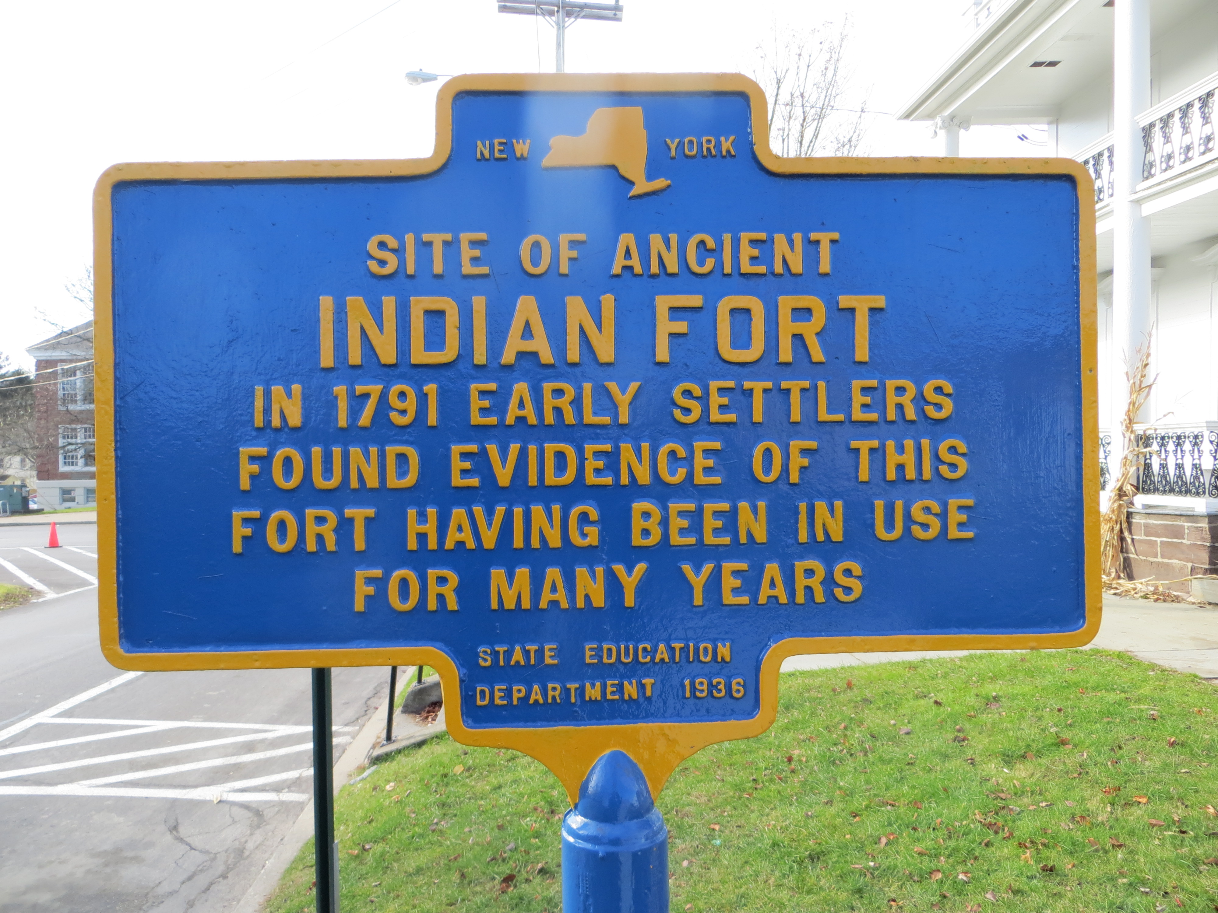 Historic marker of site of ancient Indian Fort. Evidence found in 1791 at Oxford, NY.